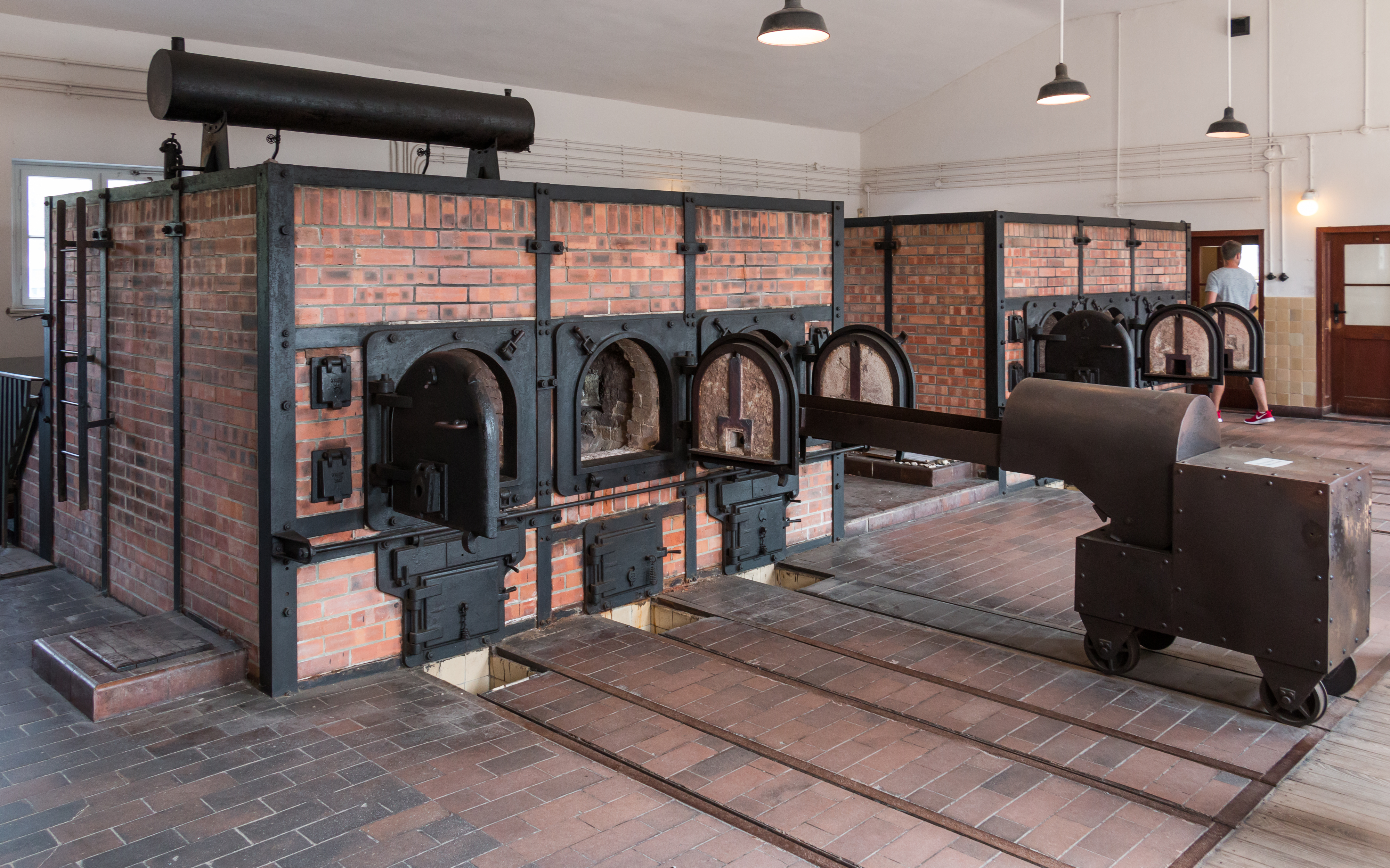 Crematorium of the Buchenwald concentration camp